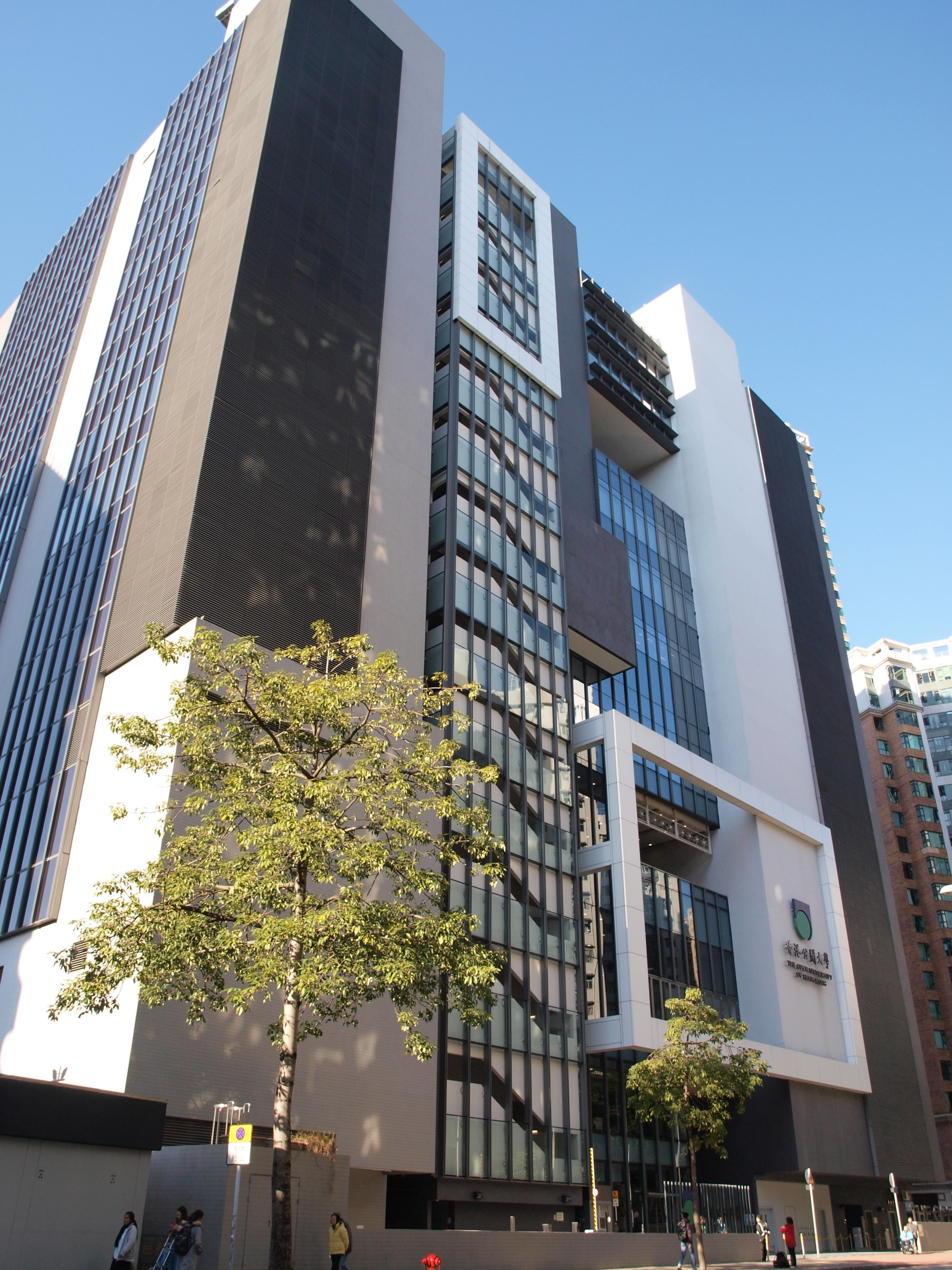 The Open University of Hong Kong - Jockey Club Campus viewed from Chung Hau Street in January 2018.